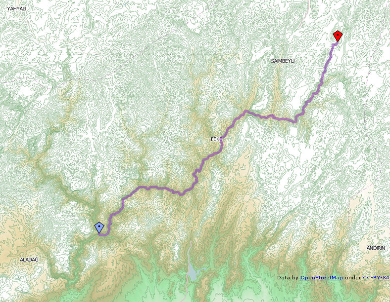 Göksu River (Seyhan tributary)